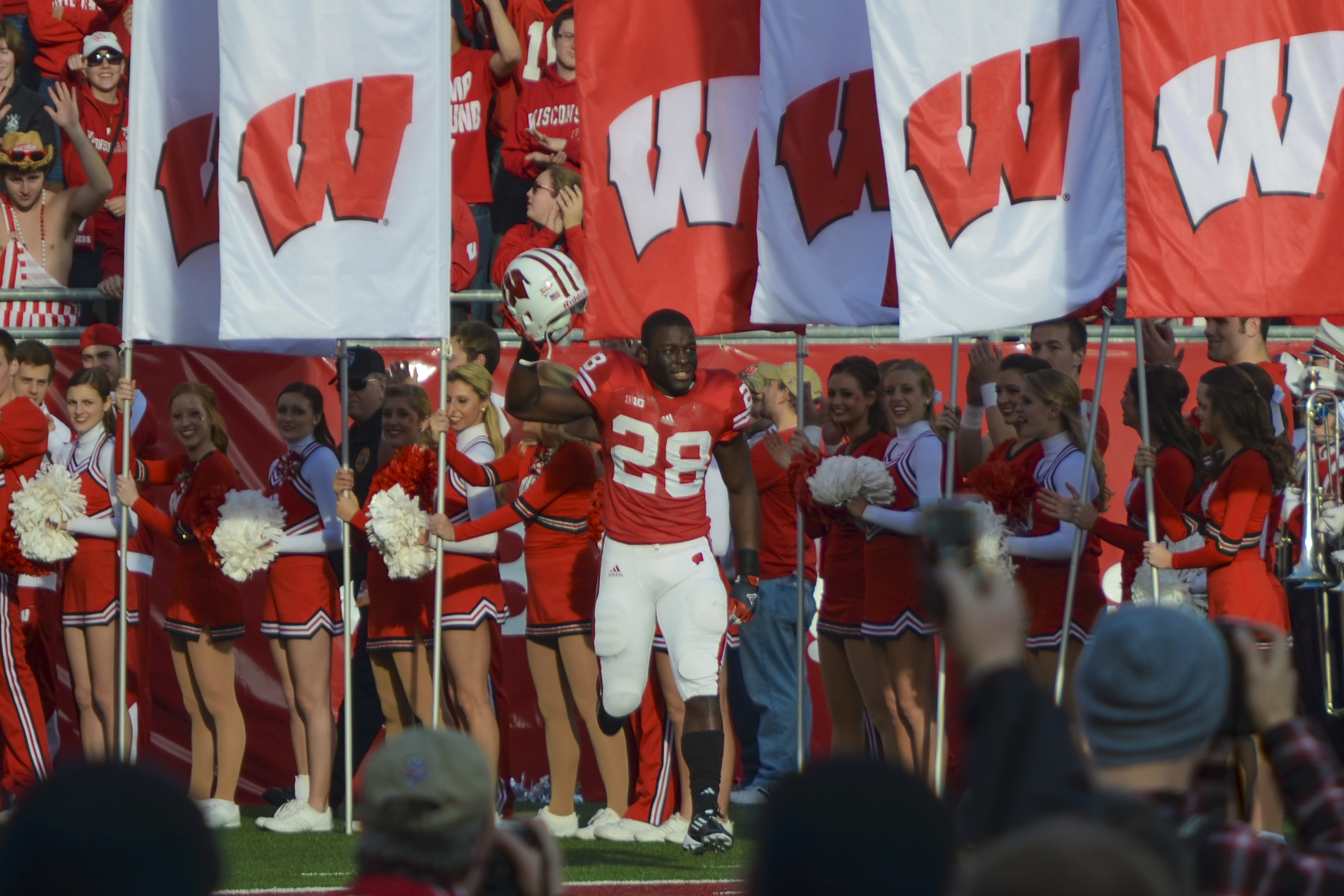 The day Montee Ball tied the NCAA career TD mark he was announced along with all senior members of the UW Badger Football team individually.